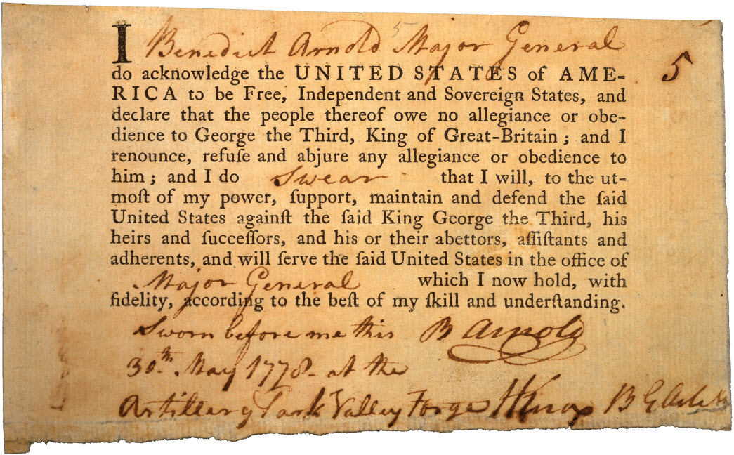 Benedict Arnold's Oath of Allegiance, 05/30/1778